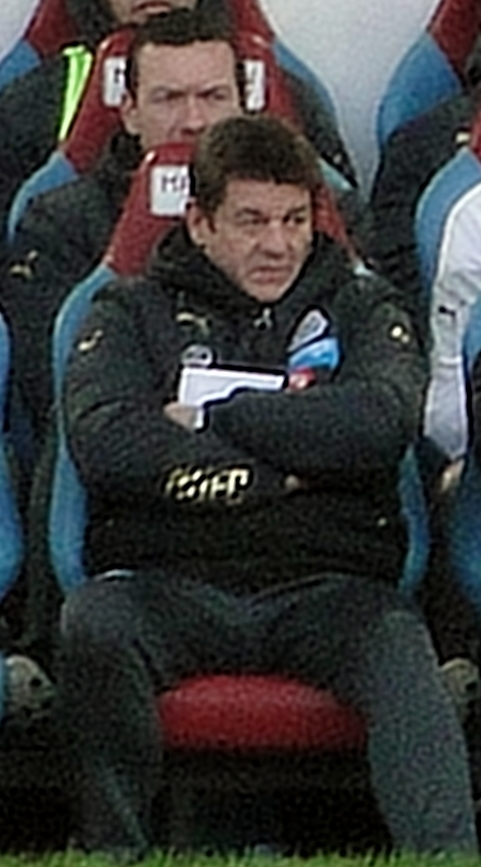 Alan Pardew (front, standing) as manager of Newcastle United, during their Premier League defeat to West Ham United at the Boleyn Ground, November 2014